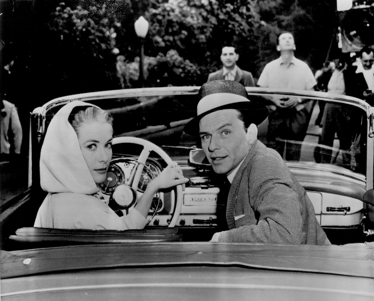 Photo of Frank Sinatra and Grace Kelly on the set of High Society A renewal search was done at for Associated Press. There was only one renewal listed-for a 1965 news story on Winston Churchill: Type of Work: Text Registration Number / Date: RE0000628340 / 1993-07-09 Renewal registration for: A00000765603 / 1965-03-15 Title: Churchill: portrait of greatness. By Relman Morin. Copyright Claimant: Associated Press (PWH) Basis of Claim: New Matter: text, selection & compilation of ill. Variant title: Churchill: portrait of greatness. A renewal search was also done for the title Indiana Gazette. There were no listings for this newspaper at . There's no evidence of continuing copyright for the photo.